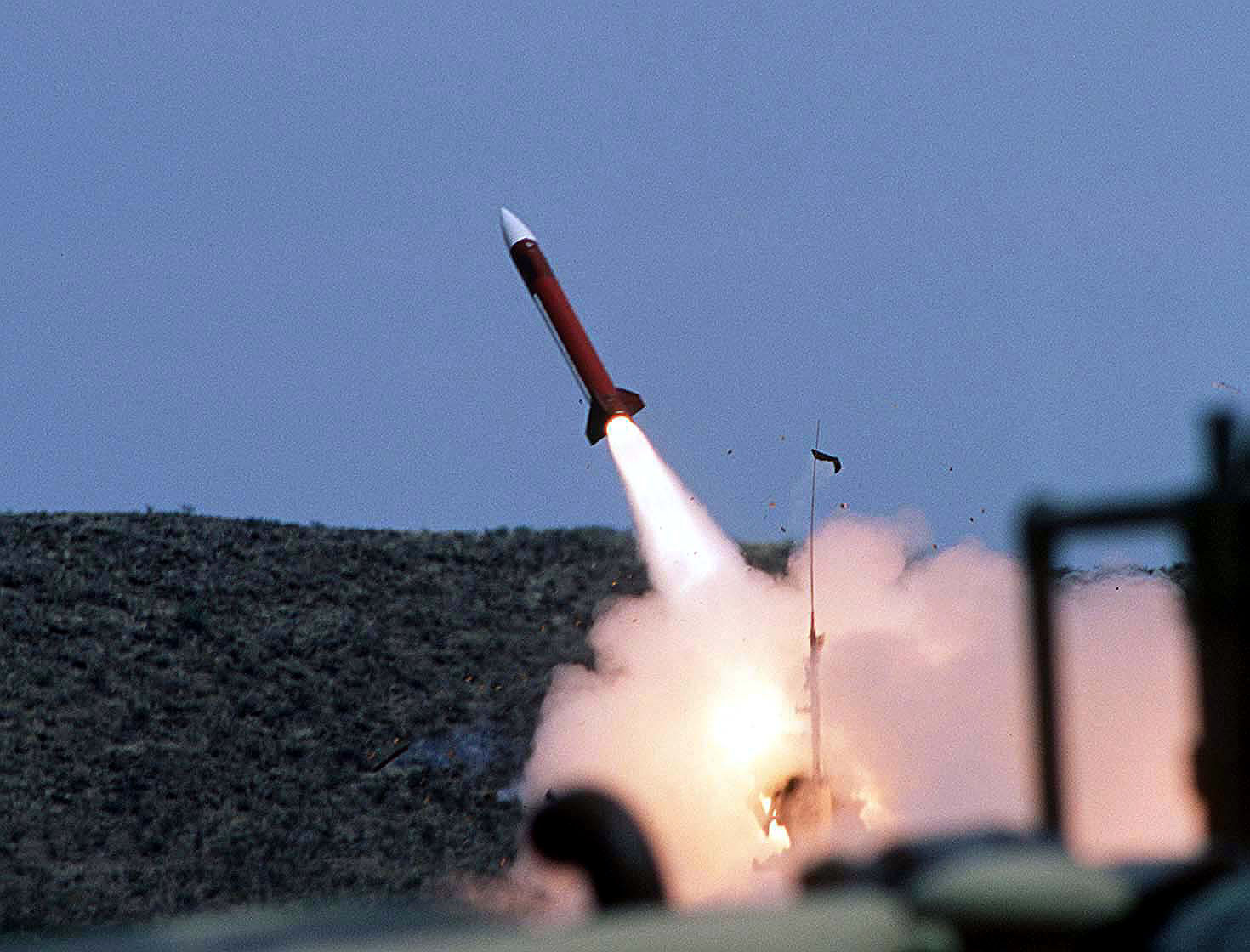 A Patriot missile is launched by soldiers of the 11th Brigade, 43rd Air Defense Artillery, at McGregor Range near El Paso, Texas, on April 30, 1997. More than 20,000 service members from all branches of the armed forces of the U.S., Canada, Germany, and the Netherlands are participating in Exercise Roving Sands '97. The exercise is designed to refine their skills in operations using an integrated air defense network of ground, missile and radar early warning systems combined with tactical fighter and bomber aircraft operating in a simulated high-threat environment. The 43rd Air Defense Artillery is deployed for the exercise from Fort Bliss, Texas.